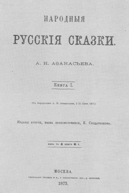 Afanasyev's Russian Fairy Tales, 1873 Edition's cover